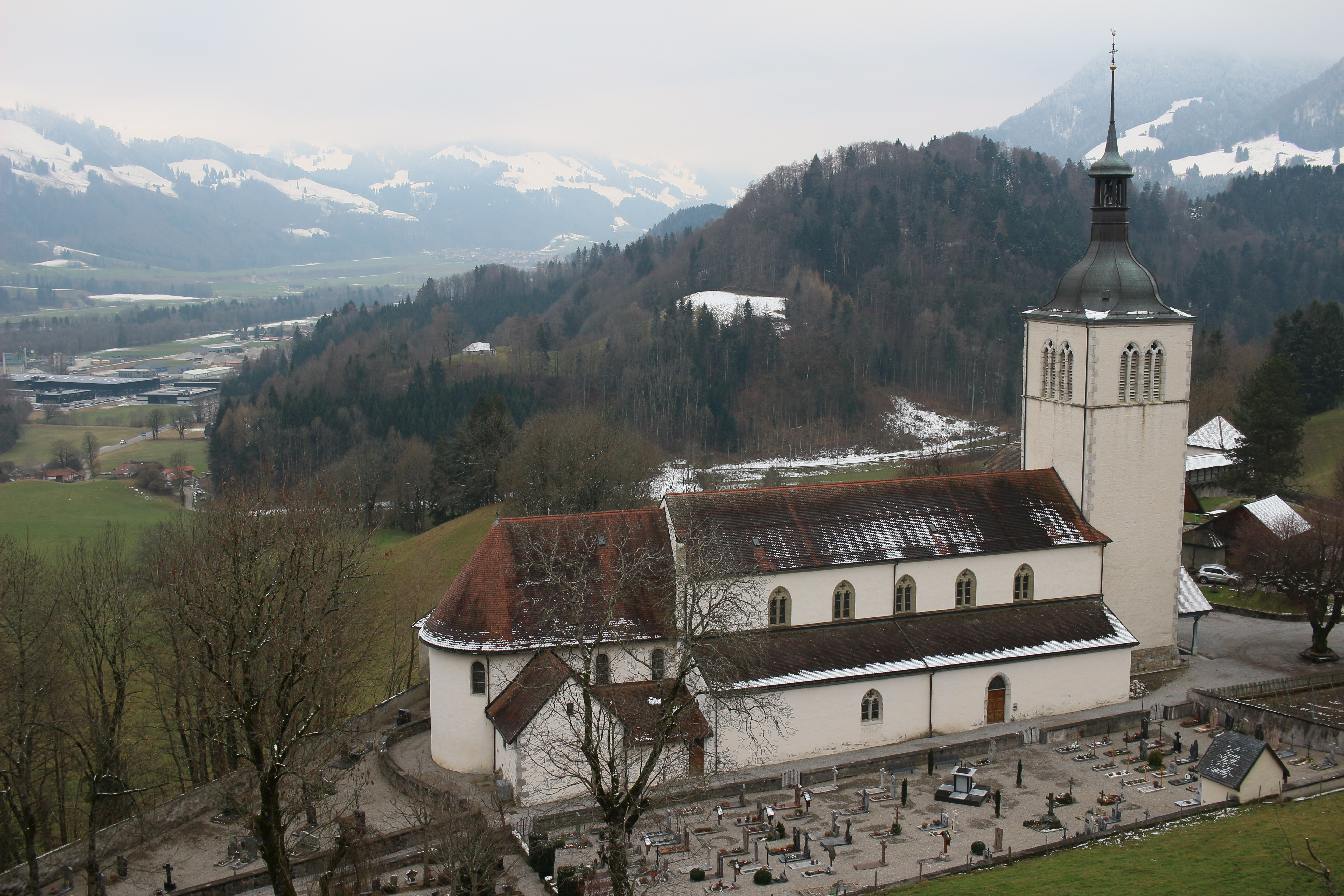 Church in Gruyeres, Switzerland (2016)